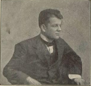 Avgust Jenko (1894-1914)